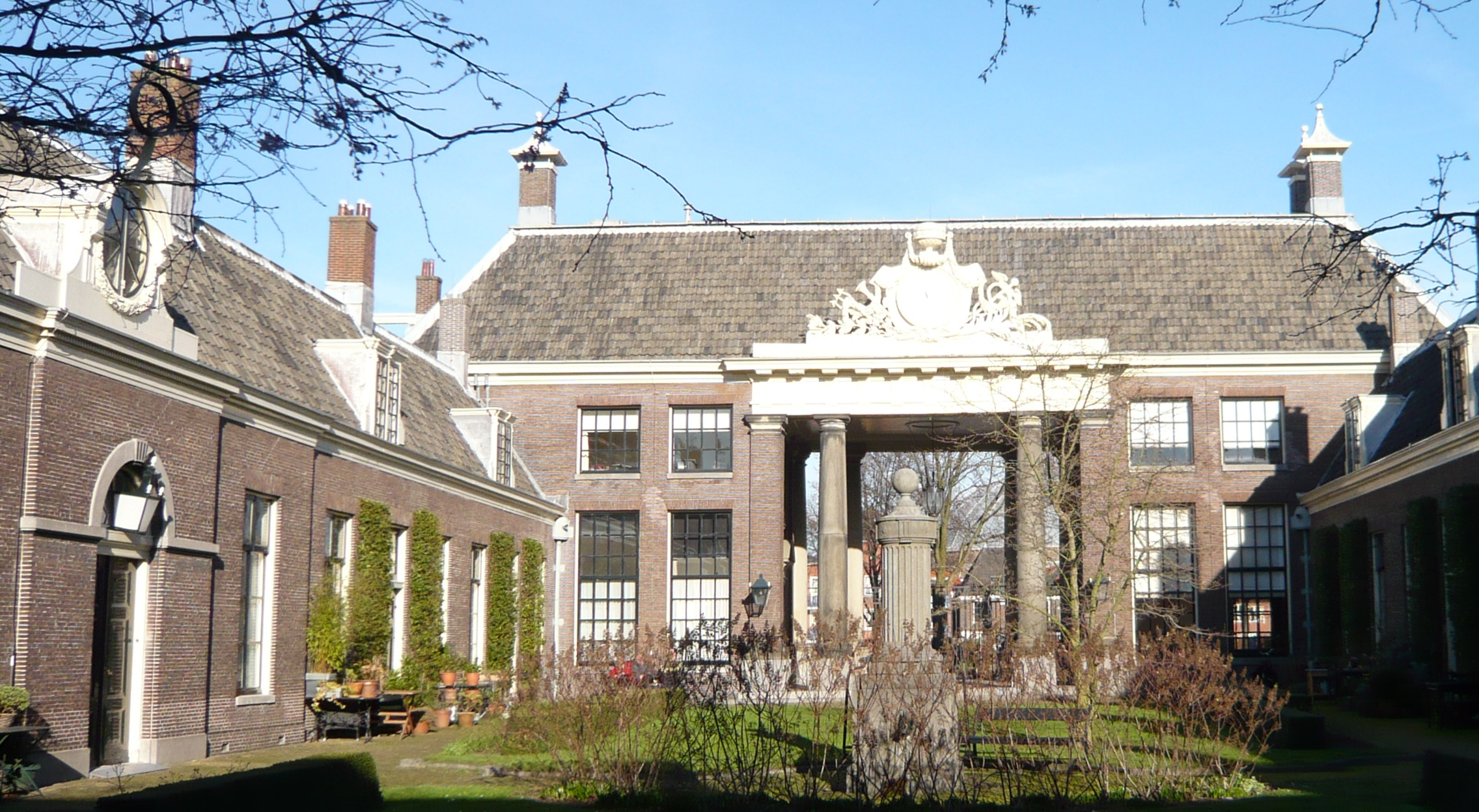 Garden of Teyler's Hofje on the Spaarne, Haarlem, the Netherlands. Through the gate one can see the domed roof of the Haarlem prison on the other side of the Spaarne river.